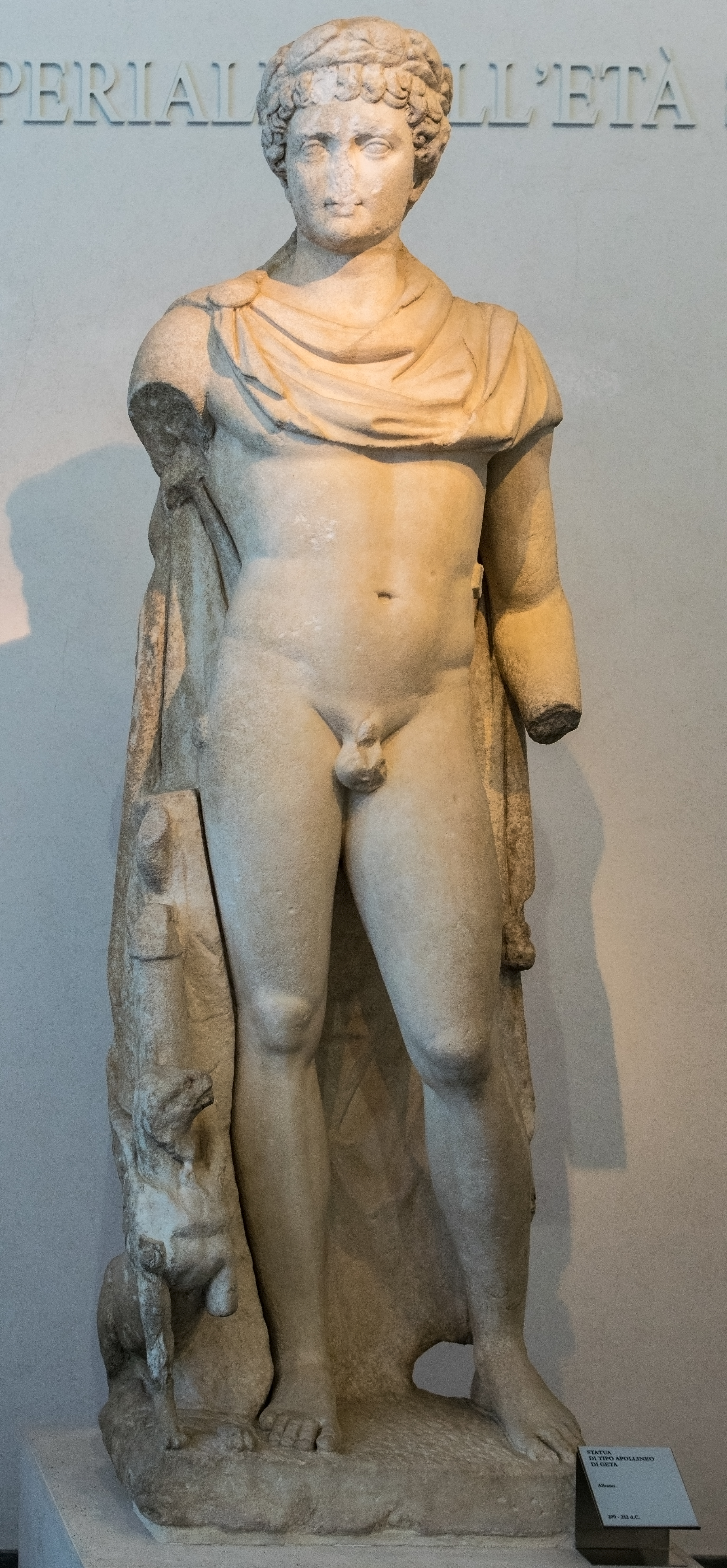 Roman marble statue (209 - 212) of Geta, from Albano Laziale in the guise of Apollo